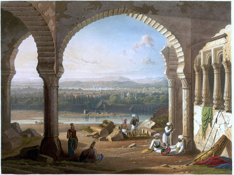 This plate shows a distant view of Aurangabad, which was the centre of local government and the headquarters for the troops of the Nizam of Hyderabad State even after he moved from there in 1811. Grindlay explains: "The area seen from the ruined palace was called Begumpura, or the Lady's Quarter, and was named after Aurungzebe's daughter, who was buried there. The cupola and minarets of her tomb are to the centre right."